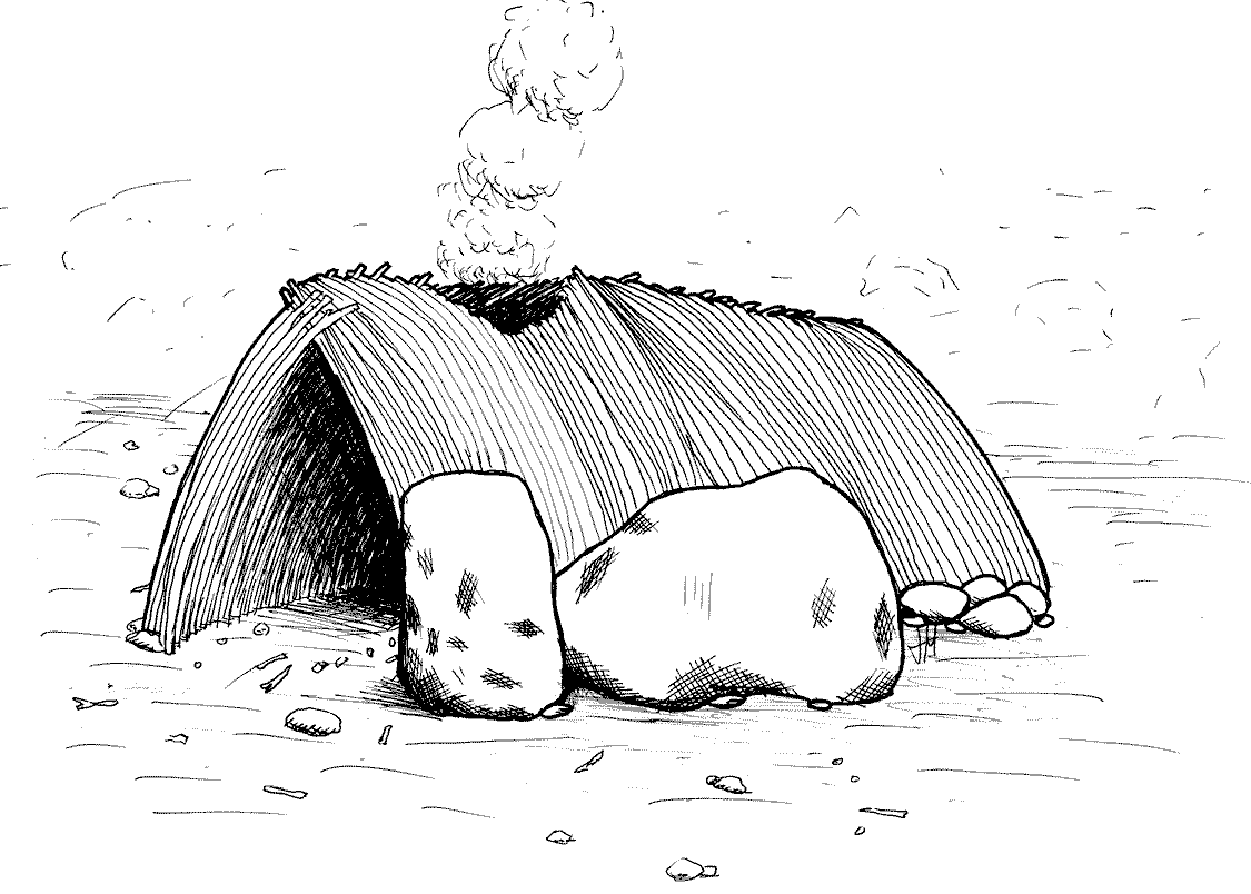 Hut found at Terra Amata, near Nice in France, was dated to the Mindel Glaciation, 380,000 BCE